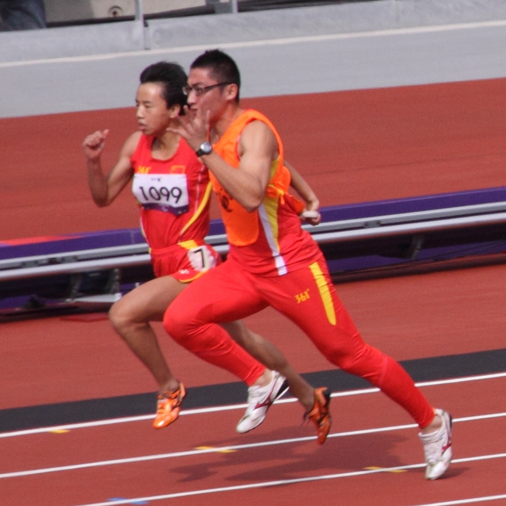 Guohua Zhou of China and her guide Jie LI pulling ahead in the Women's 100m T12 Heat 5 during the Paralympics London 2012 Games